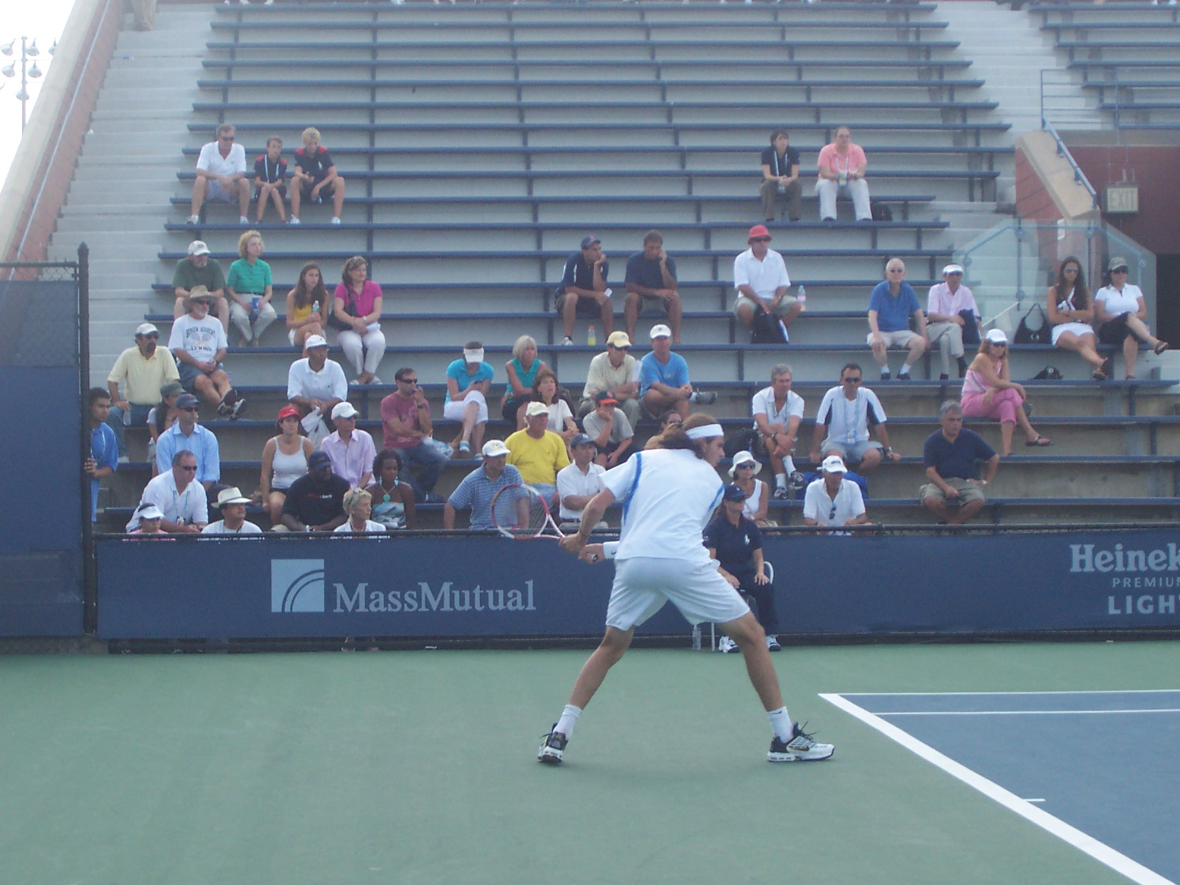 Juan Martin Del Potro In A 2006 U.S. Open Qualifying Match